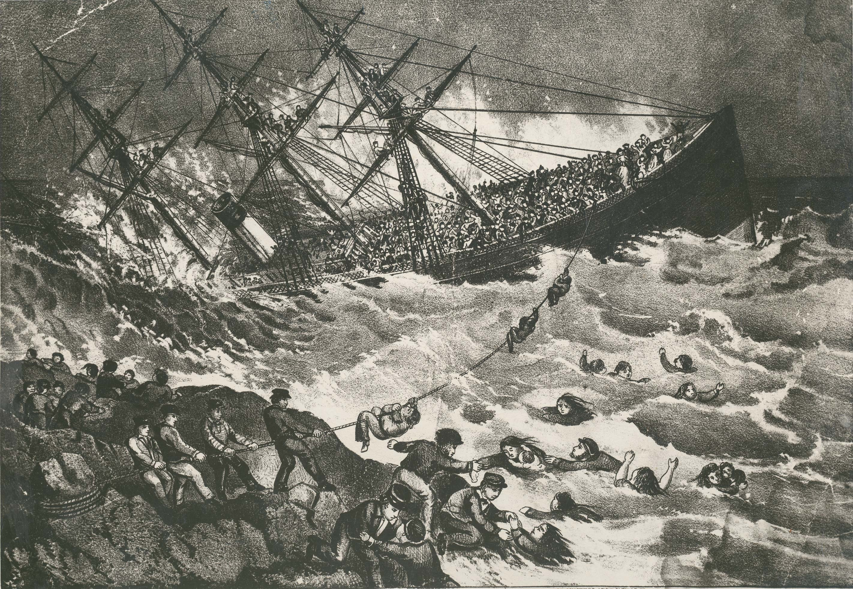 The SS Atlantic left Liverpool, England, for New York on 20 March 1873. Eleven days later, the captain decided to steam to Halifax, Nova Scotia, the nearest port, because the vessel's coal supply was running low. However, en route, the ship went ashore at Mars Head, near Lower Prospect, in the early morning of 1 April. The loss of life was horrendous — 565 passengers and crew. The disaster was the world's worst merchant shipwreck known at that time. Photograph of a lithograph originally published by Currier and Ives.